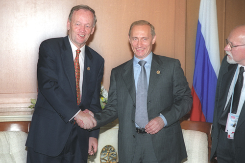 OKINAWA, JAPAN. President Putin and Canadian Prime Minister Jean Chretien.